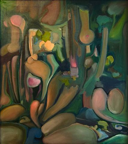 The photograph of this painting by J. Bernal, my father, was taken by me. It is part of my archived documents. It also appears in his Artist Works Catalogue of Artnet I, Lucrecia Bernal Schneider, took the photograph of this painting by José Bernal -my father- at his art studio a few years ago to compile an archive of his artworks. This painting is in Bernal's personal collection and it may also be seen in his Artnet Artist Works Catalogue (AWC): where I sent it to Artnet's AWC Account Executive to upload on to his catalogue.